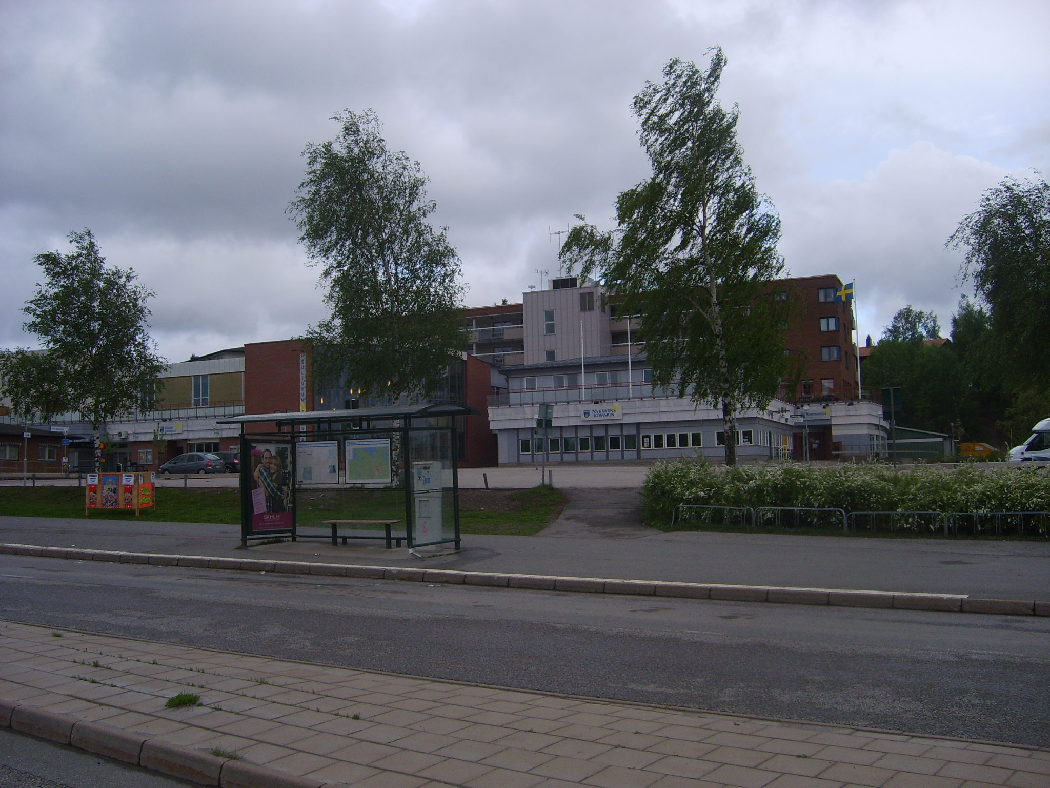 City hall in Nykvarn, Sweden.